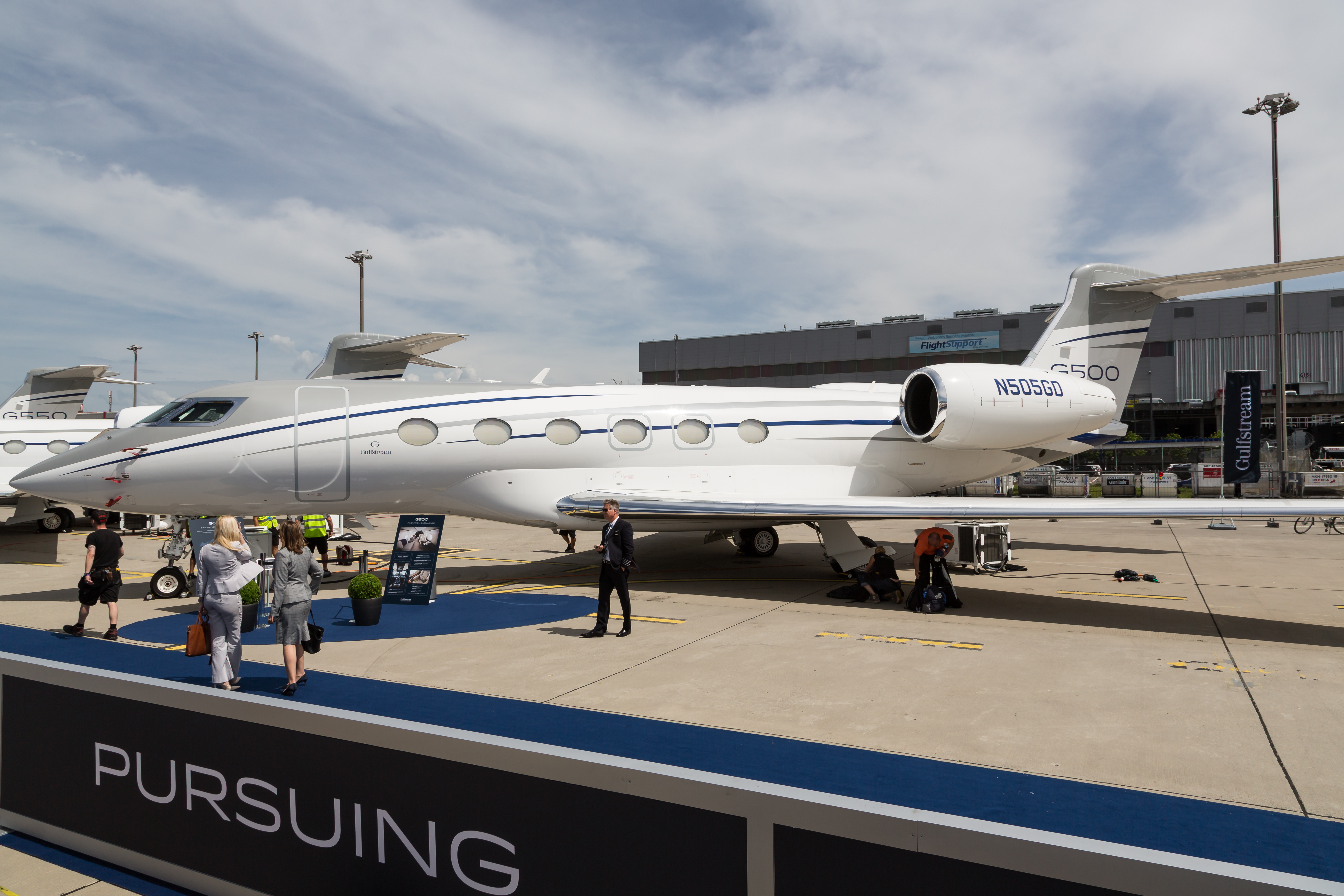 Static display preview, EBACE 2018